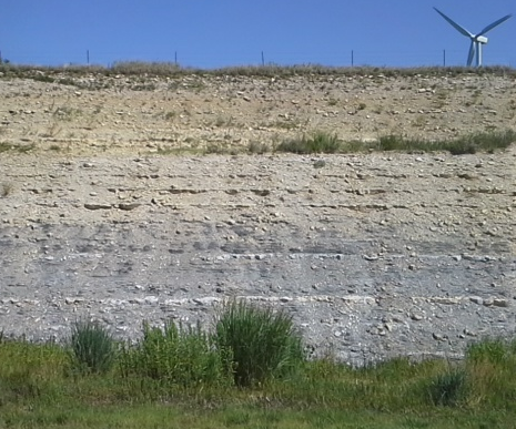 The upper units, Pfeifer Shale (buff), Jetmore Chalk (beige), and Hartland Shale (grey) of the Greenhorn Limestone formation visible in the road cut on Interstate 70 in Kansas, as it climbs over the first of the middle range of the Smoky Hills at the Smoky Hills Wind Farm west of Salina, Kansas.